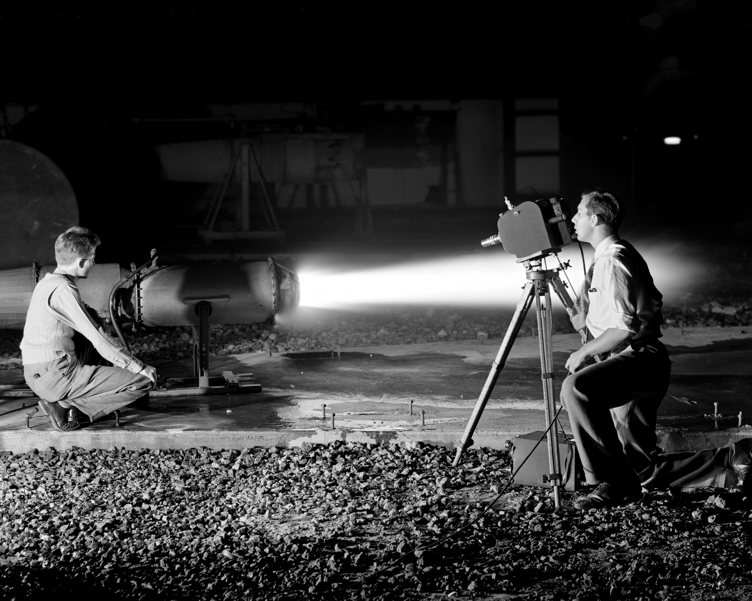 Ramjet I-40 engine in Jet Static Lab showing the making of high speed motion pictures of thrust augmentor flame. Engineers are taking motion pictures of the exhaust gases being discharged from a special burner used for studying thrust augmentation in jet-propulsion engines at the Flight Propulsion Research Laboratory of the National Advisory Committee for Aeronautics, Cleveland, Ohio, now known as John H. Glenn Research Center at Lewis Field.